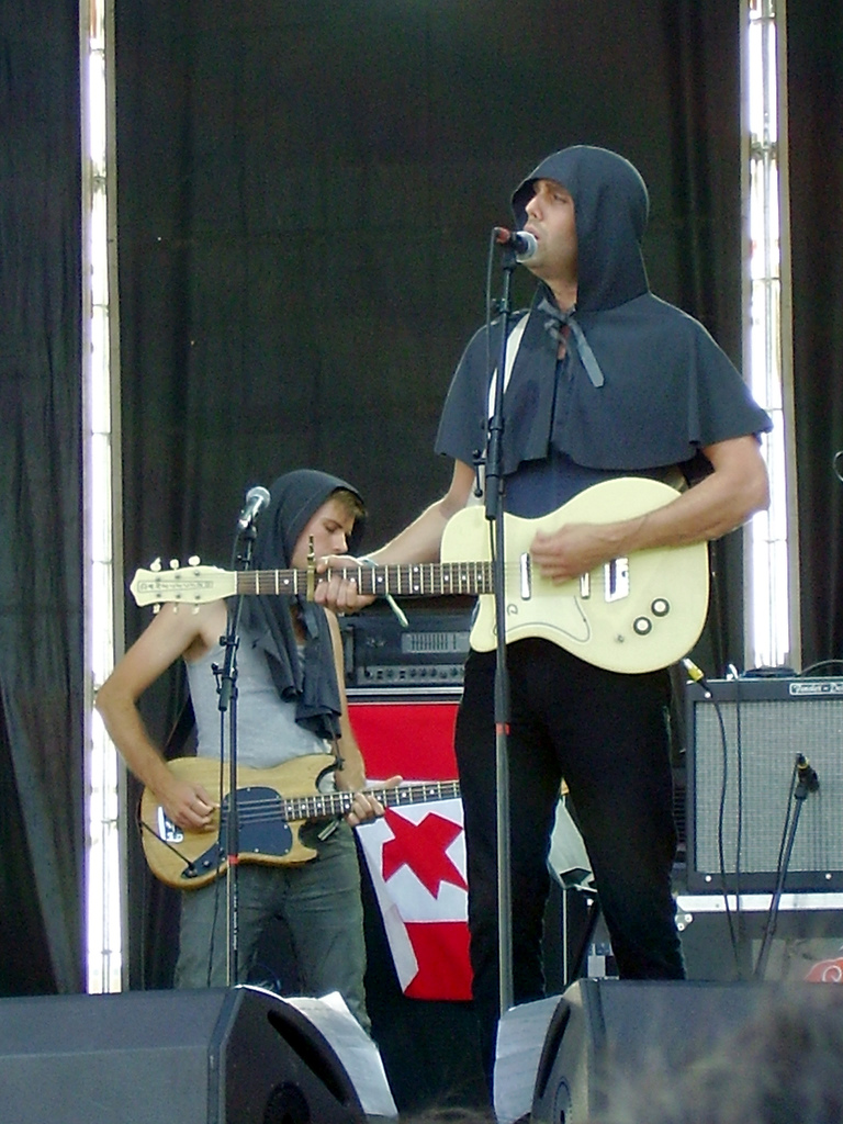 The Hidden Cameras